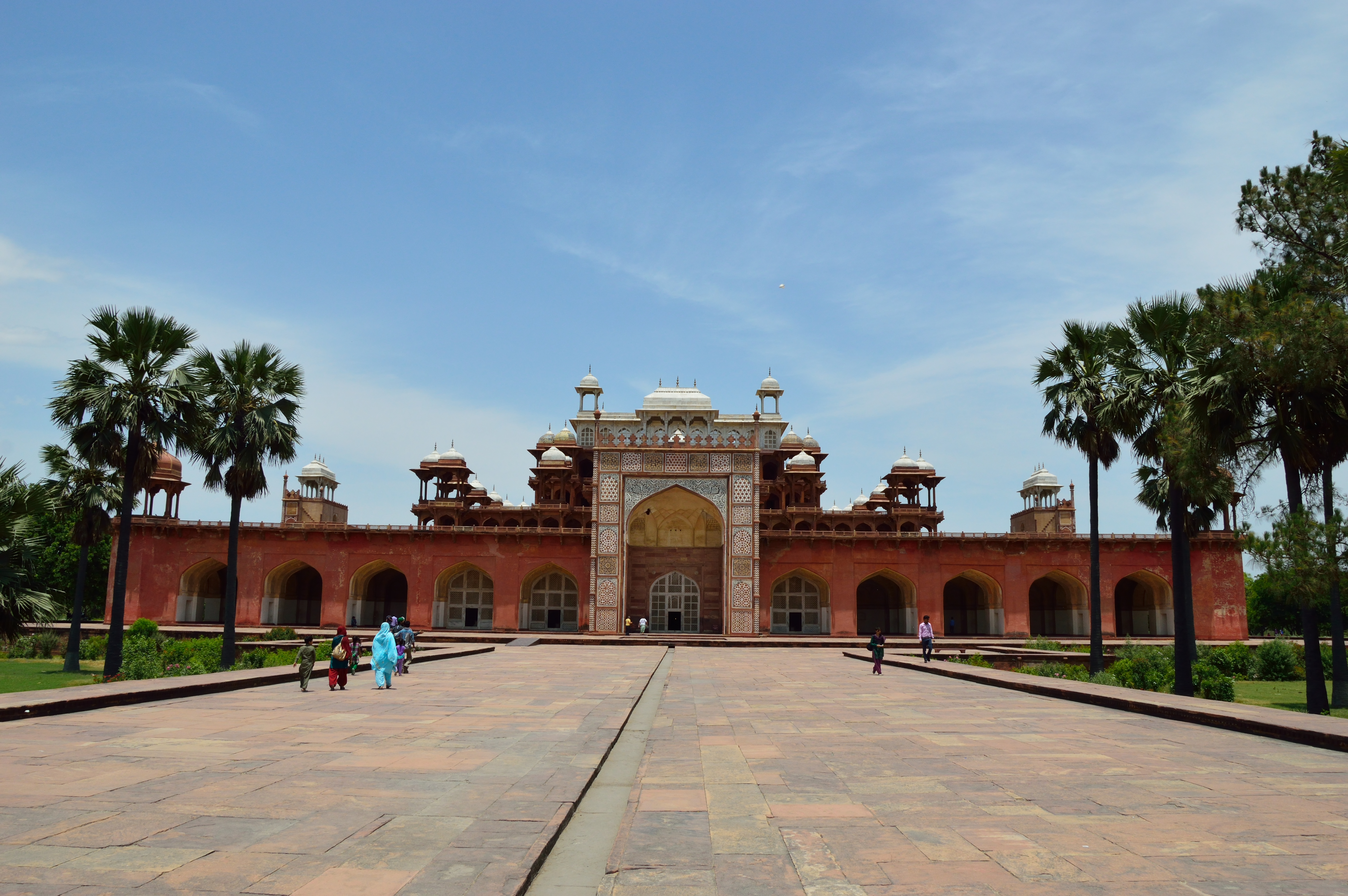 Tomb of the Mughal Emperor Abu'l-Fath Jalal ud-din Muhammad Akbar or Akbar or Akbar the Great (14 October 1542 – 27 October 1605), at the Akbar Mausoleum Complex, Sikandra, Agra. This photograph has been uploaded during the 'Wiki Loves Monuments 2014' from India.